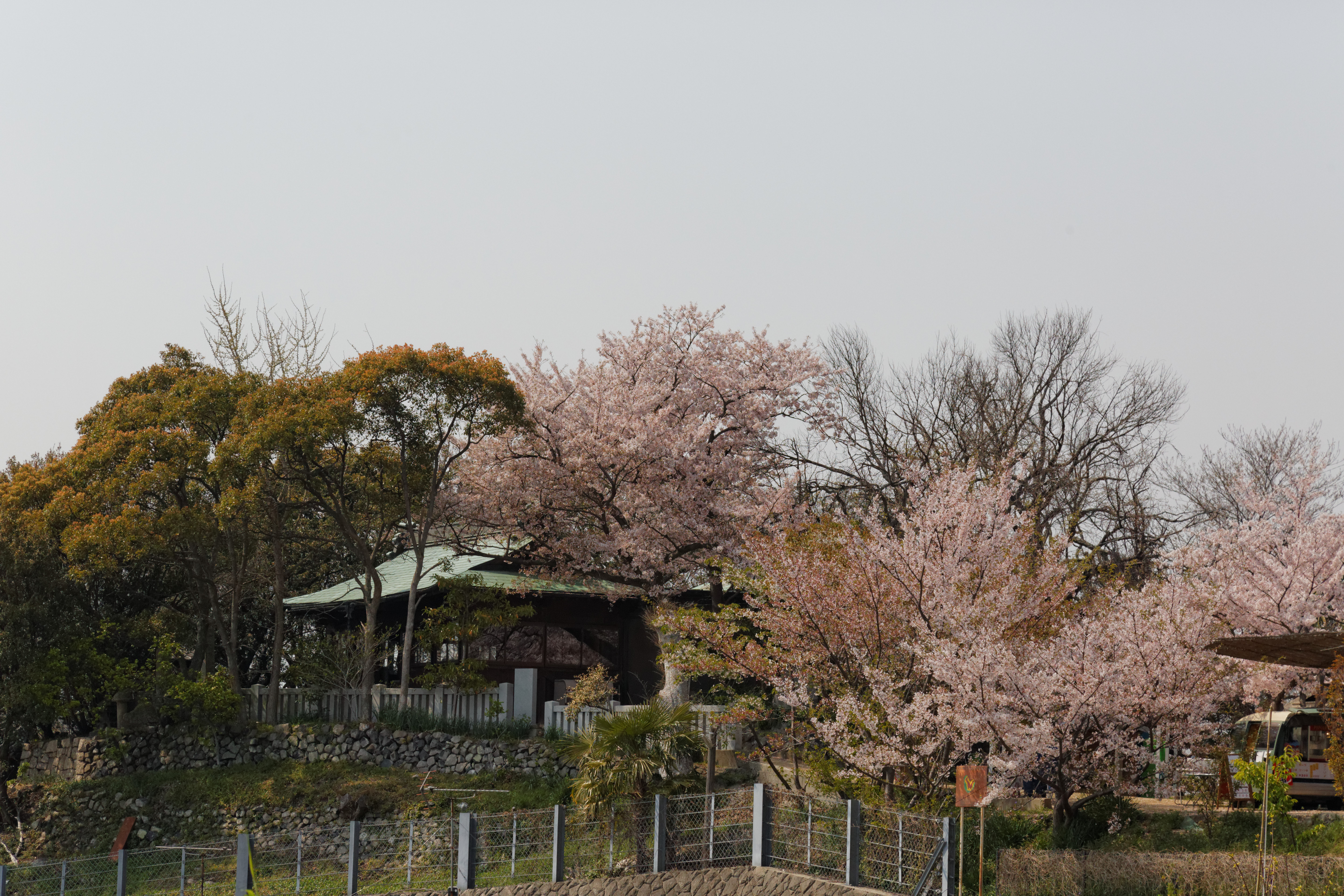 Ogijima 2013-04